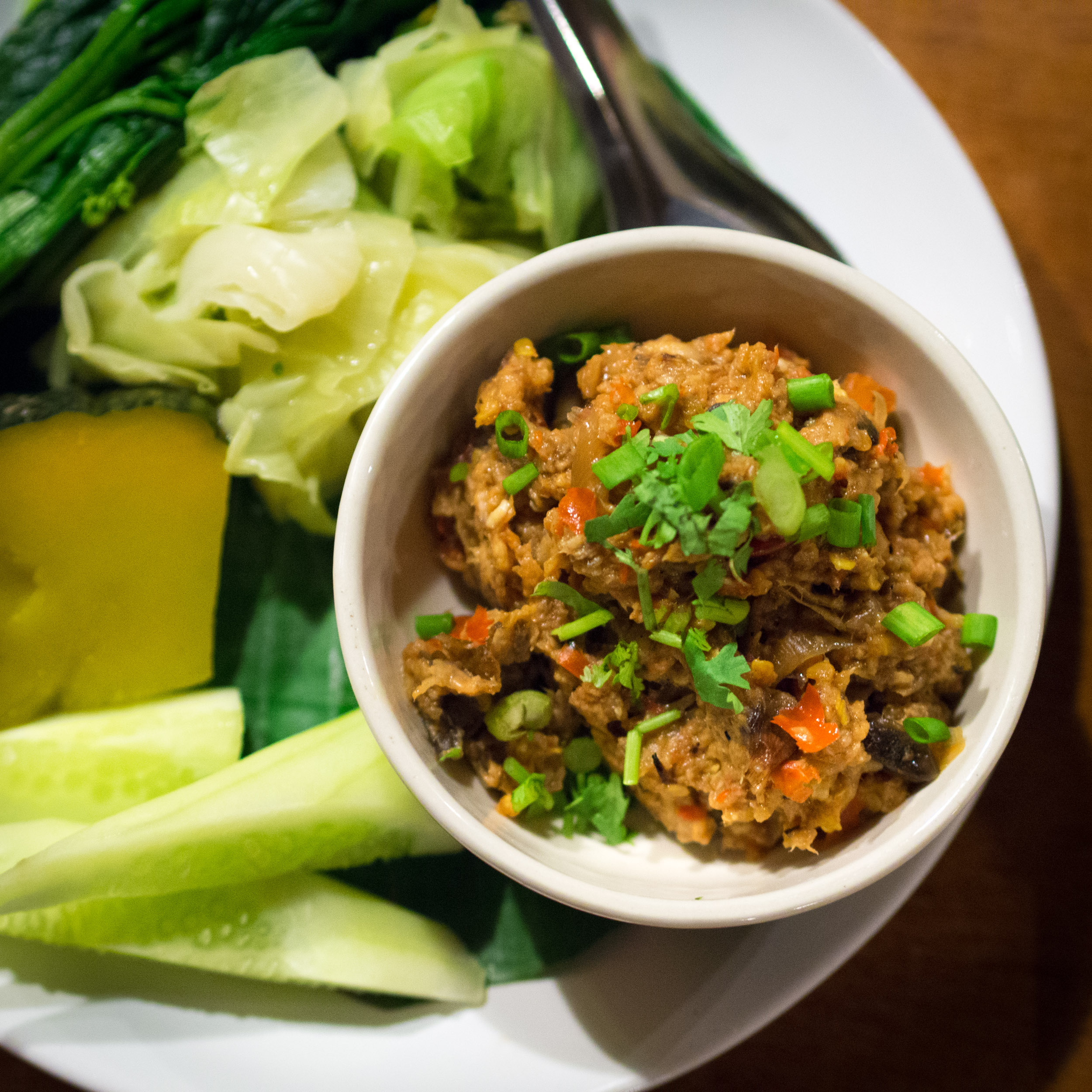 Nam phrik pla chi (Thai script: น้ำพริกปลาจี่): a chilli paste made with grilled fish. It's normally served with both steamed and raw vegetables and/or other leaves.